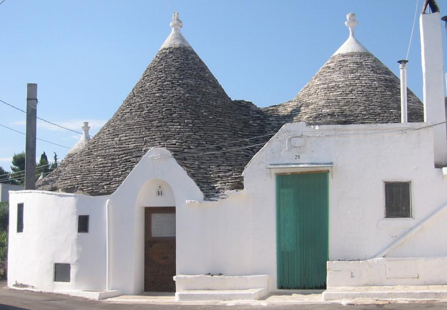 (c) 2005, Niels Elgaard Larsen Trulli i Alberobello.